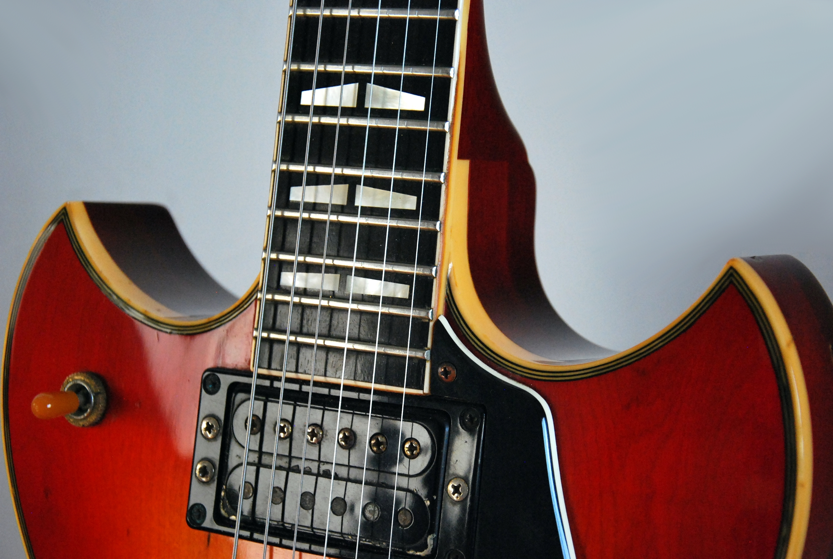 1981 Yamaha SG1000 It doesn't get better than that. The Yamaha SG is one of the best (if not the best) electric guitar ever created, Yamaha had the guts to improve an original American design, adding the original features of the most advanced Japanese technology, the legendary sustain and the killer look that Santana needed in the 70's for his golden era of guitar-god status. The SG-1000 is quite similar to the 2000, a little less of MOP and a plain top, but same construction, sound, pickups and weight. This one is just above perfection, weights about 4.1 kgs but still possible to be played on stage with no major harm on your back. All original... Soon to be refretted for me to be able to play it live. Just got the guitar from a trade and I feel I need more of those. Can't get enough Yamahas!!! :) Template:FlickrTags